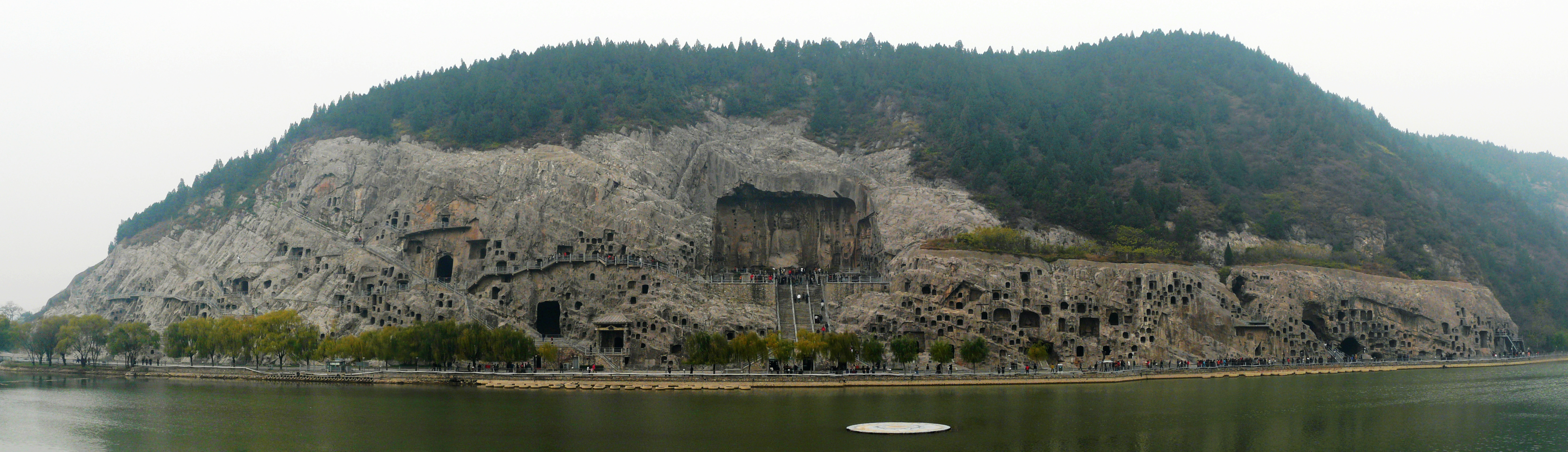 The panoramic photography of Longmen Grottoes.